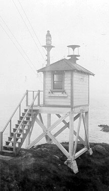 Public Domain statement here; Point Blunt Light is a lighthouse on Angel Island in San Francisco Bay, California.